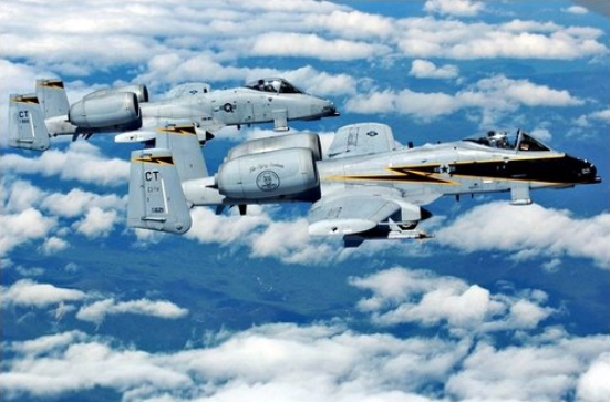 Two U.S. Air Force Fairchild Republic A-10A Thunderbolt II from the 118th Fighter Squadron, 103rd Fighter Wing, Connecticut Air National Guard